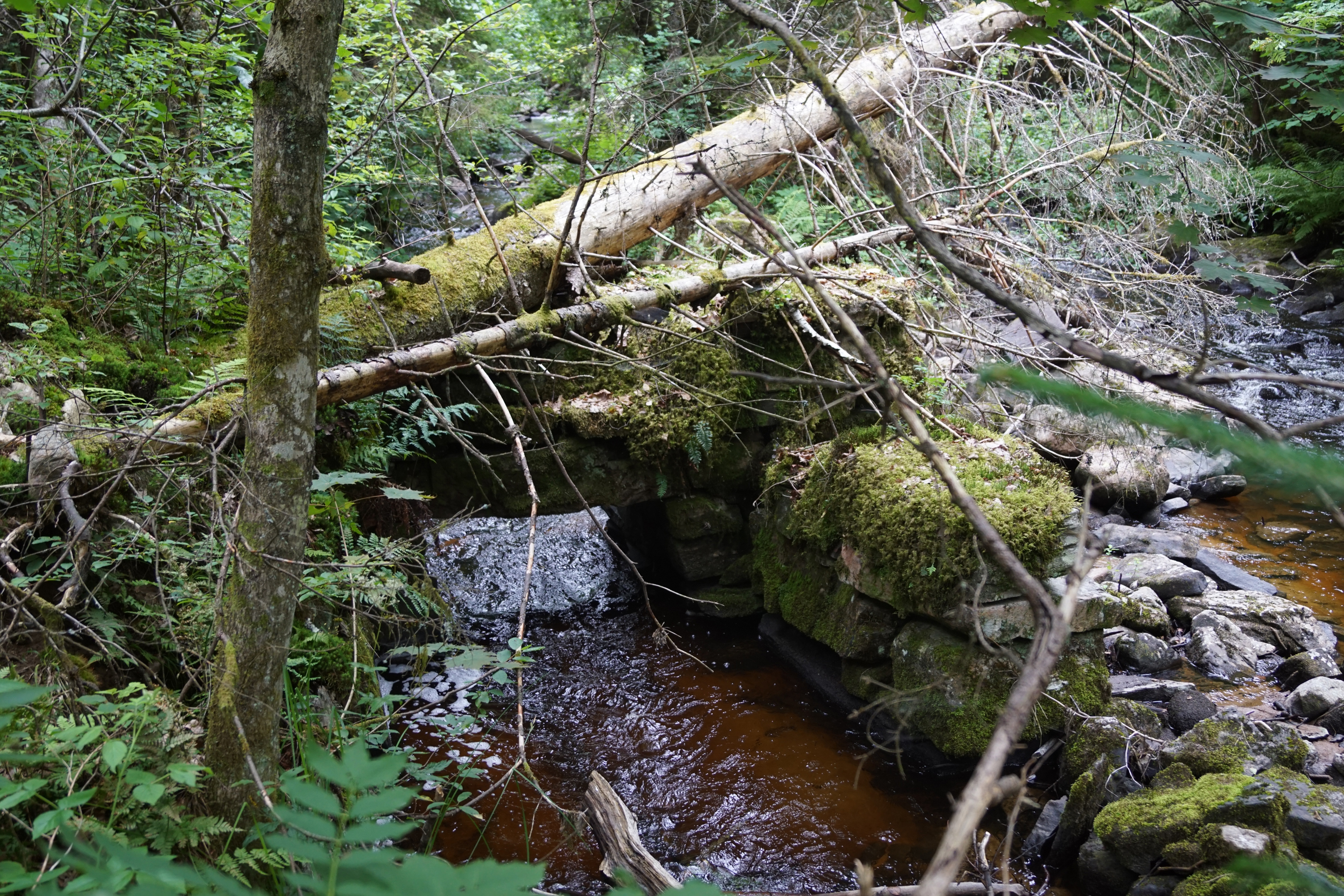 The ruin of the water mill in Skår, Skepplanda socken, Ale Municipality, Sweden.